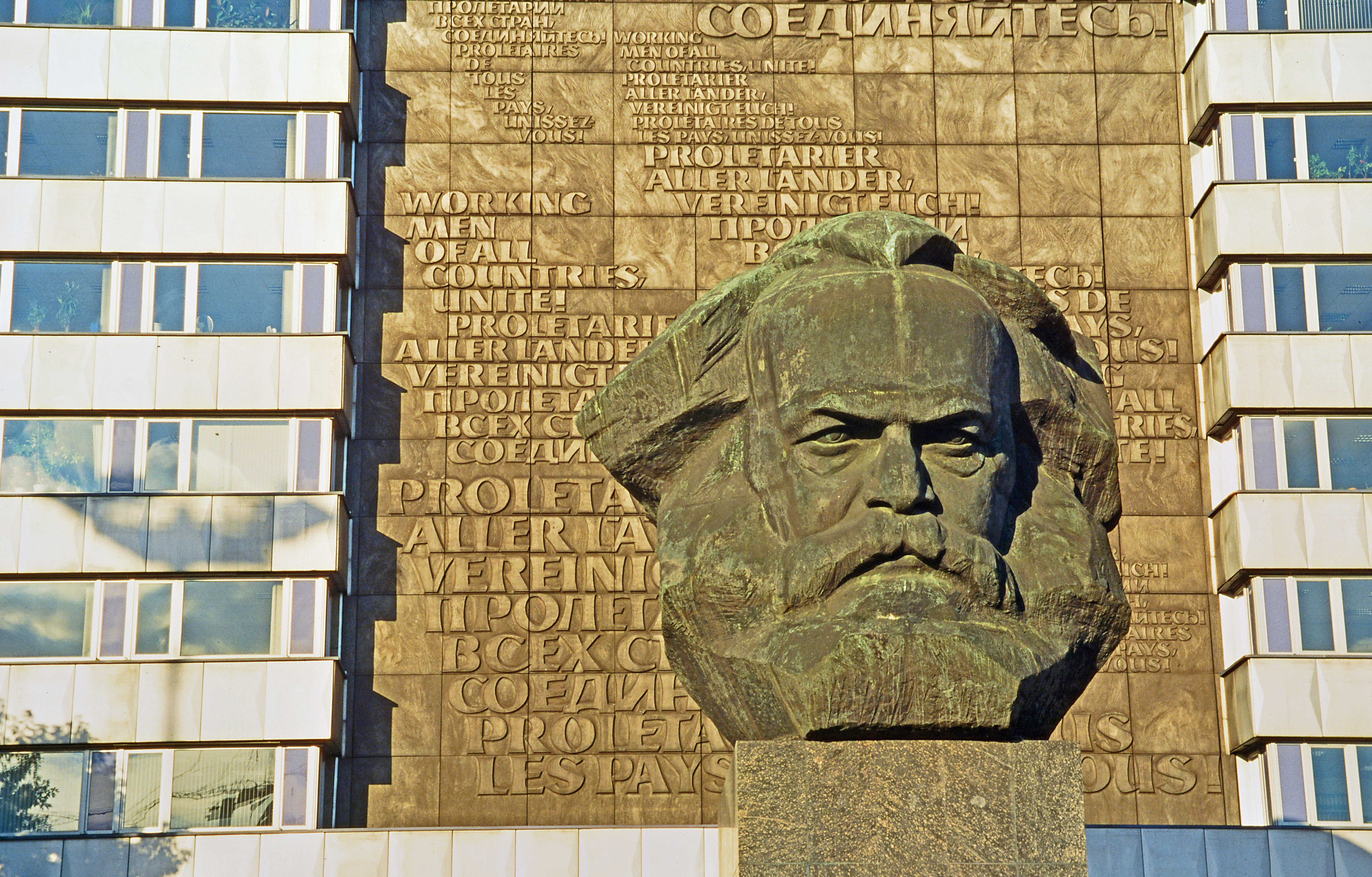 Karl-Marx-Monument in Chemnitz (Close up)